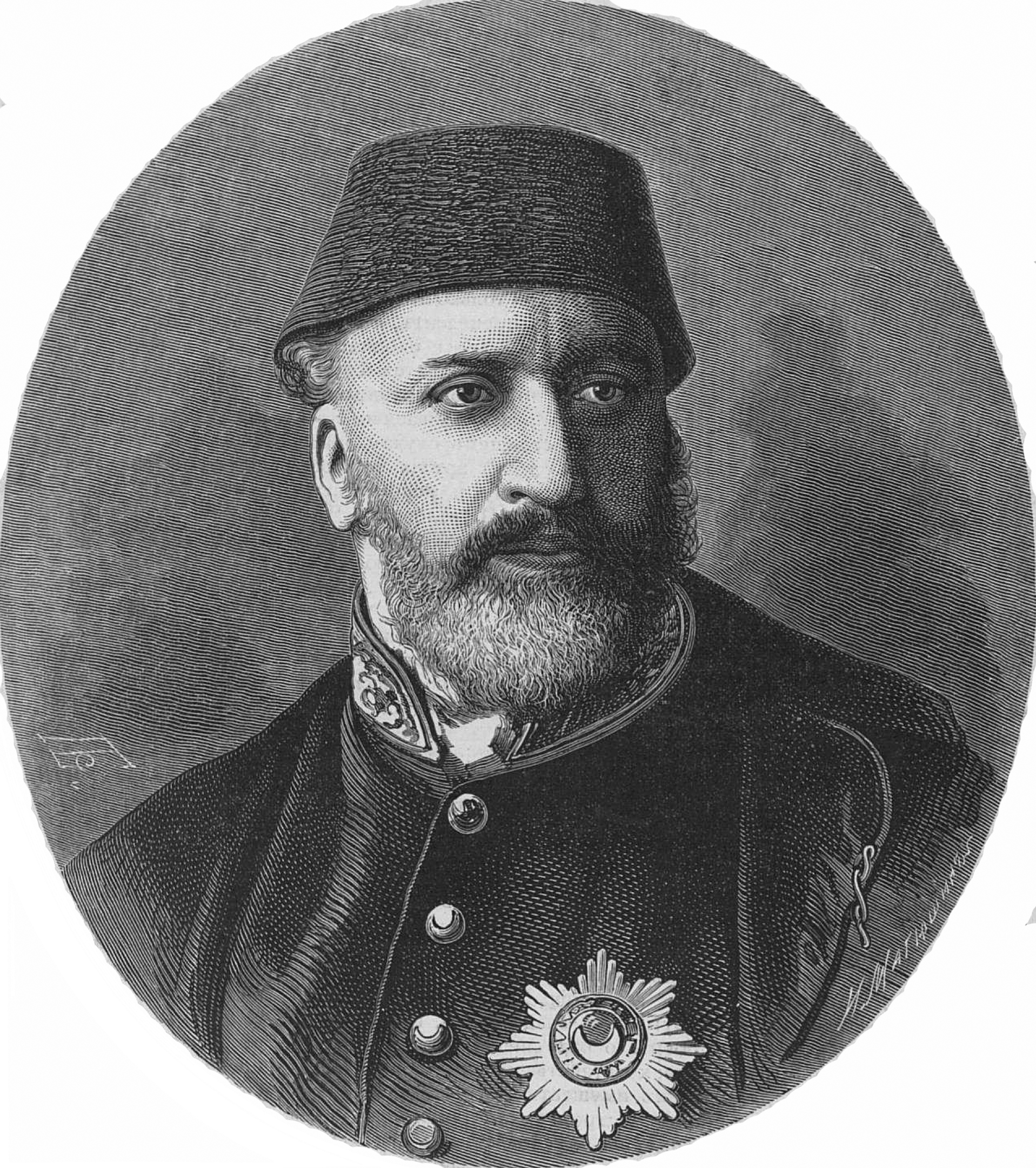 Portrait of Abdülaziz, Sultan of the Ottoman Empire (1861-1876).